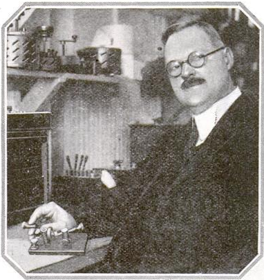 Picture of radio pioneer G.W. Pickard in his laboratory. Published in an interview by Popular Science Monthly